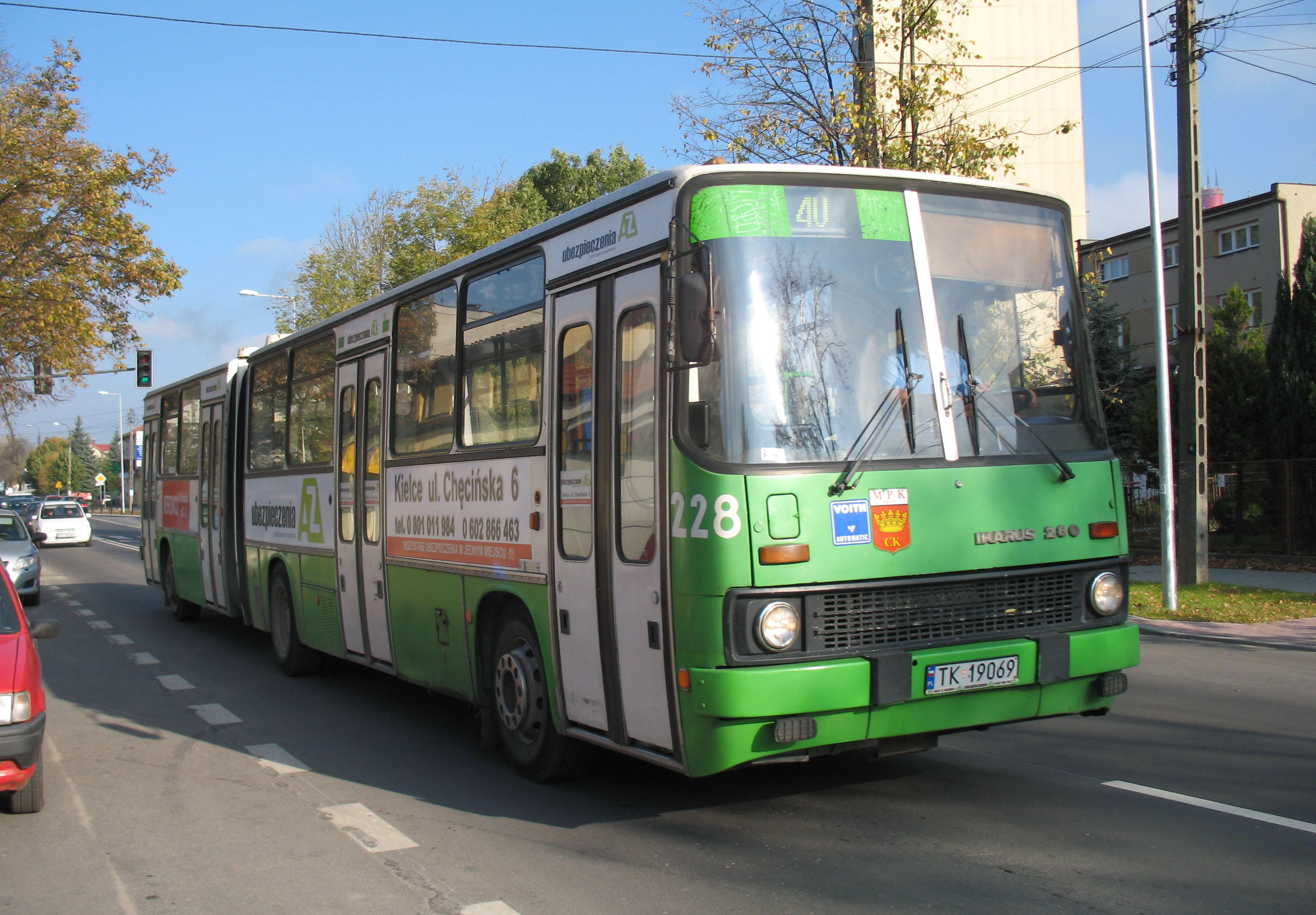 Ikarus 280.70E bus (#228) in Kielce, Poland. Built 1997, MPK Kielce operator.